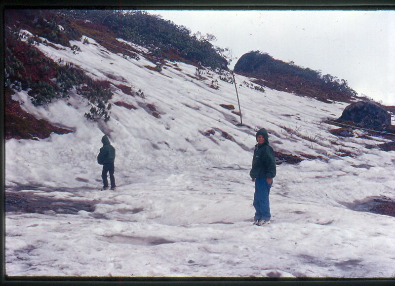 Sela top